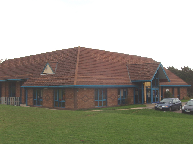 Woolwell Centre, Roborough, Devon. This Community and Resource Centre provides meeting rooms and facilities for business and leisure users. I was there on a Saturday for a meeting of the Guild of One-Name Studies.